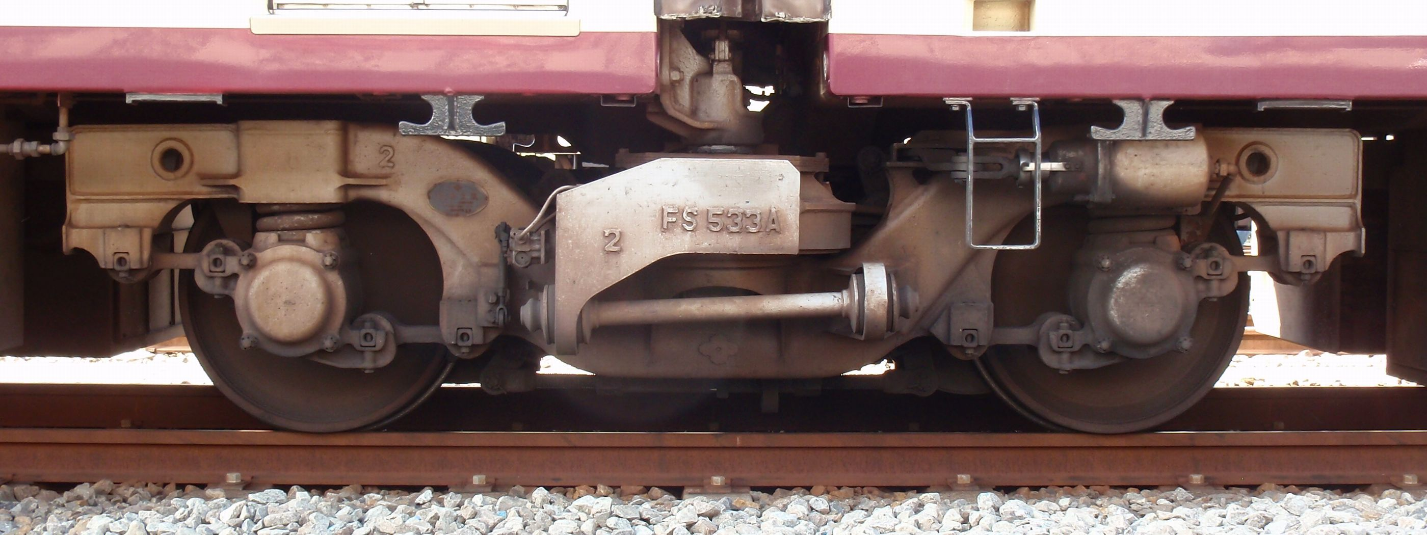 Jacobs bogie truck FS533A of Odakyu Electric Railway Company, EMU Type 10000.